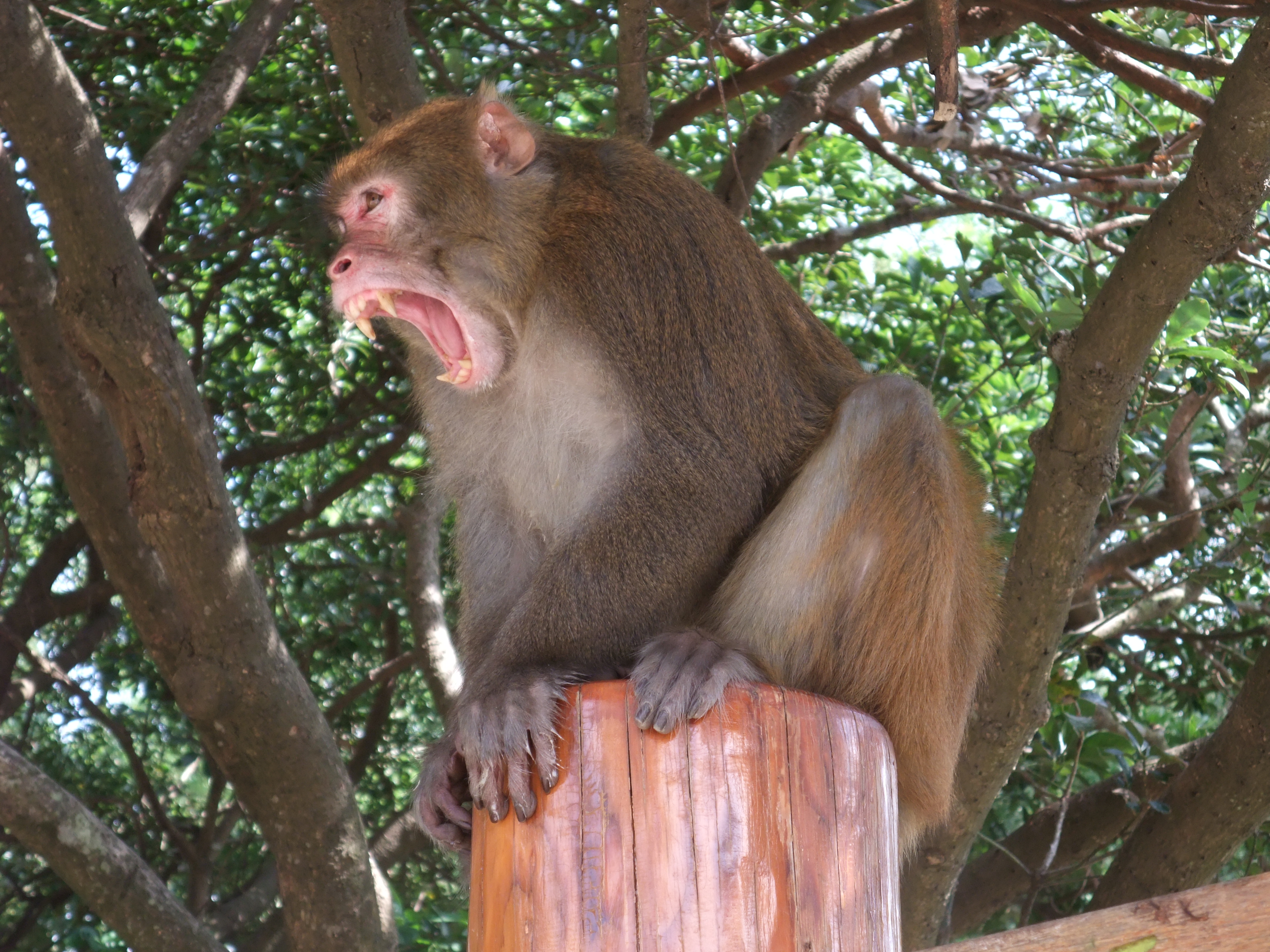 Photo of a yawning monkey